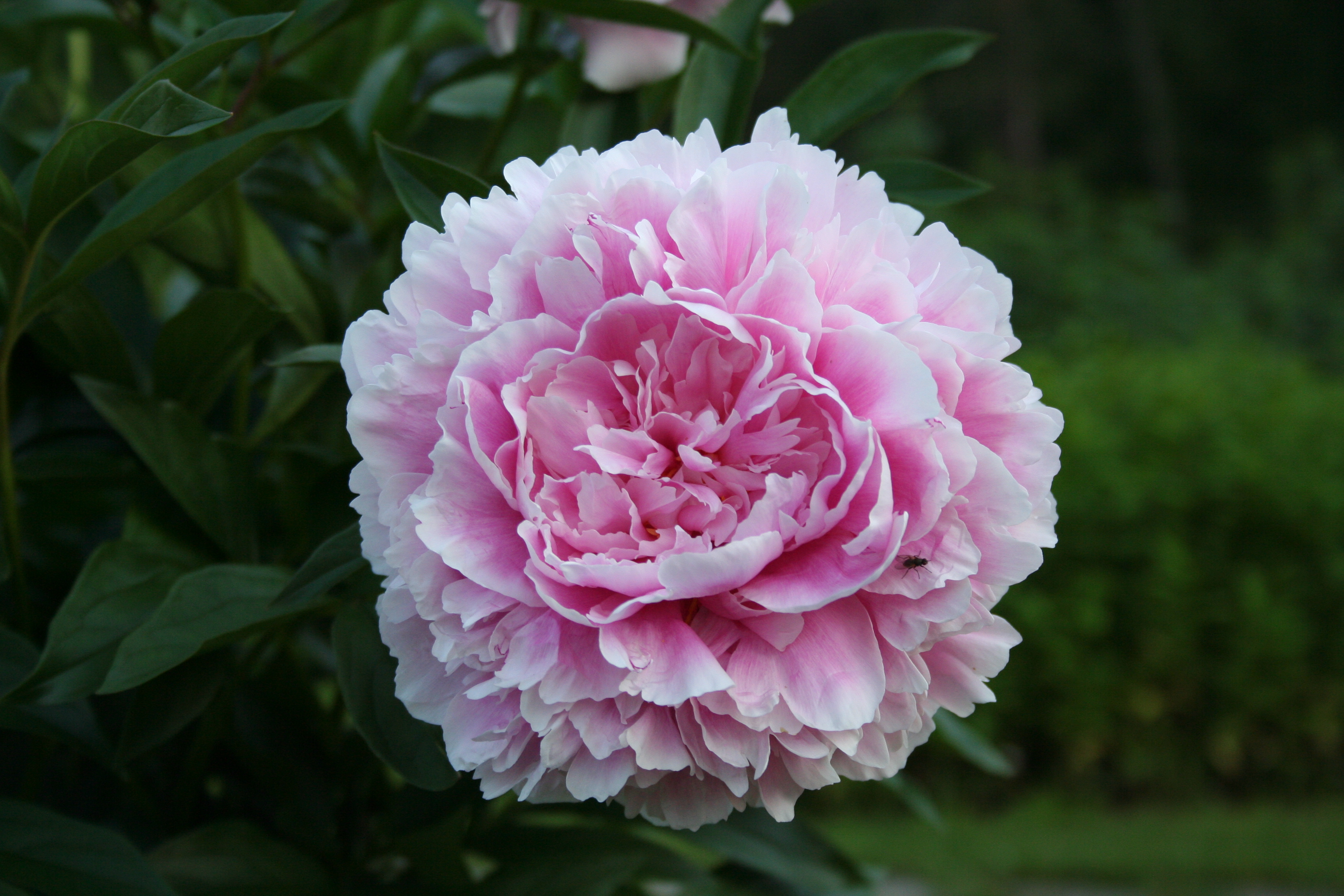 unknown Paeonia